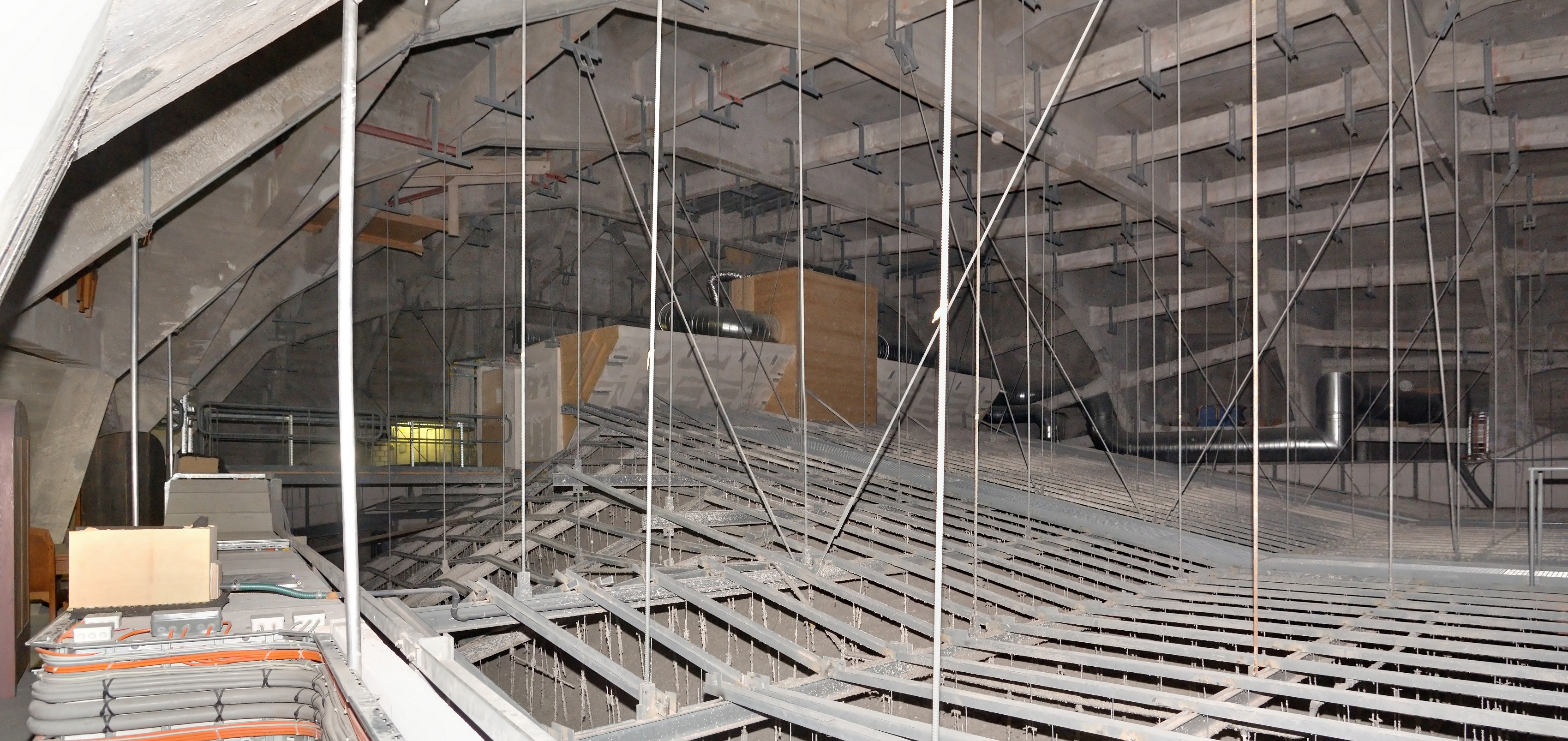 Goetheanum: roof framework